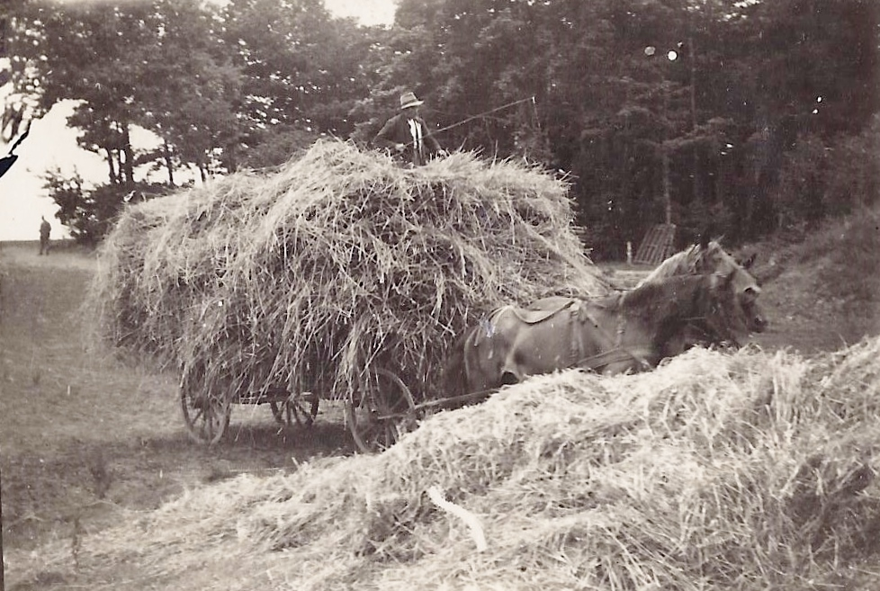 Dołgie (Dolgen - 1930, Horse-drawn vehicle (Hayrides)